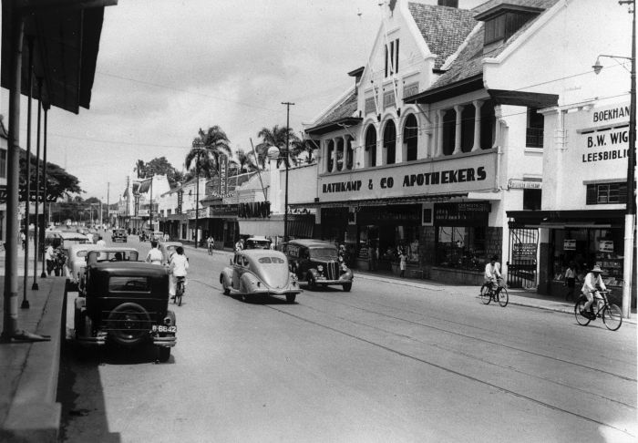 Cars in front of the 'Rathkamp & Co Apothekers' pharmacy in the 'Rijswijkstraat', Batavia.